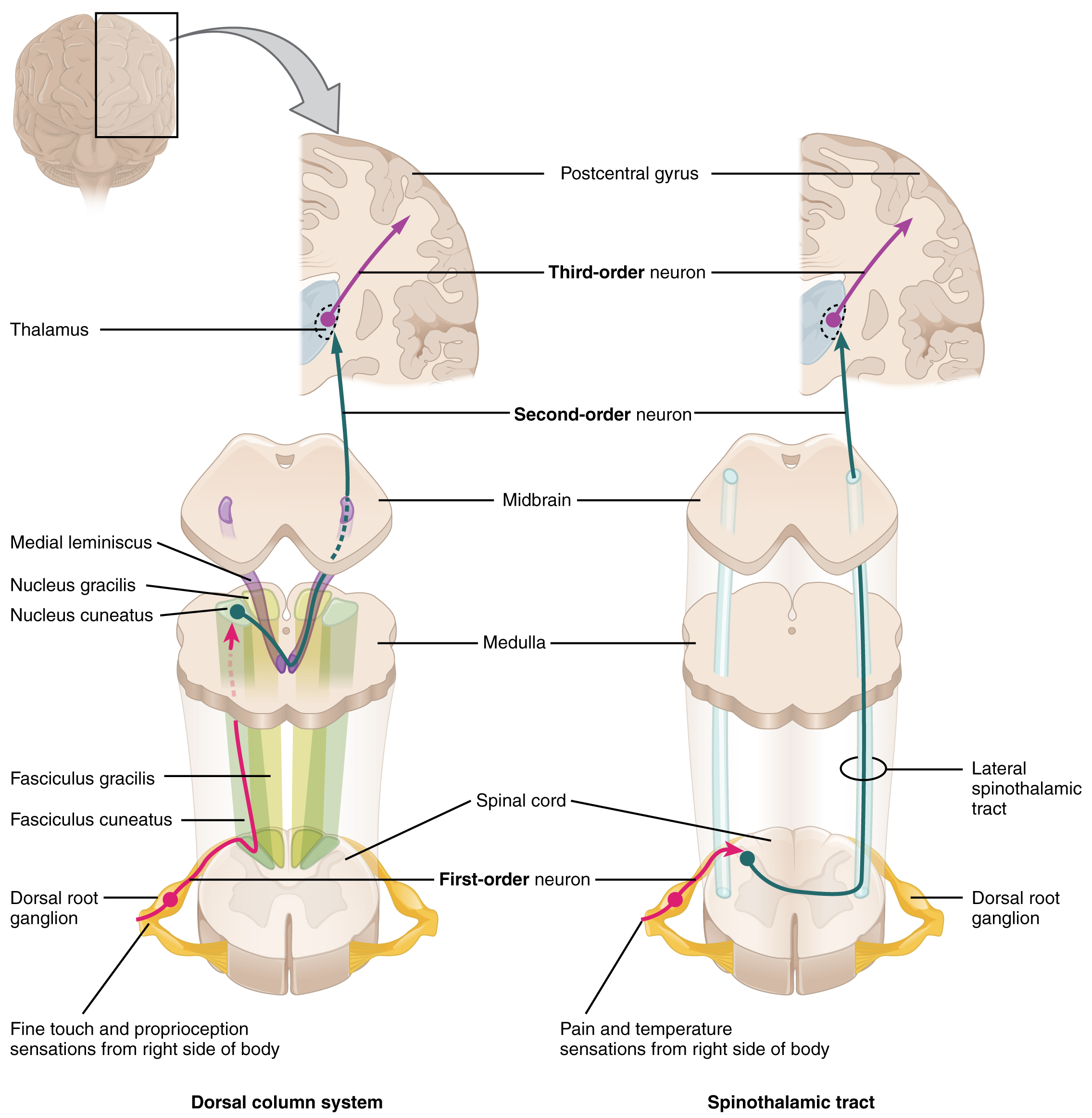 Illustration from Anatomy & Physiology, Connexions Web site. Jun 19, 2013.